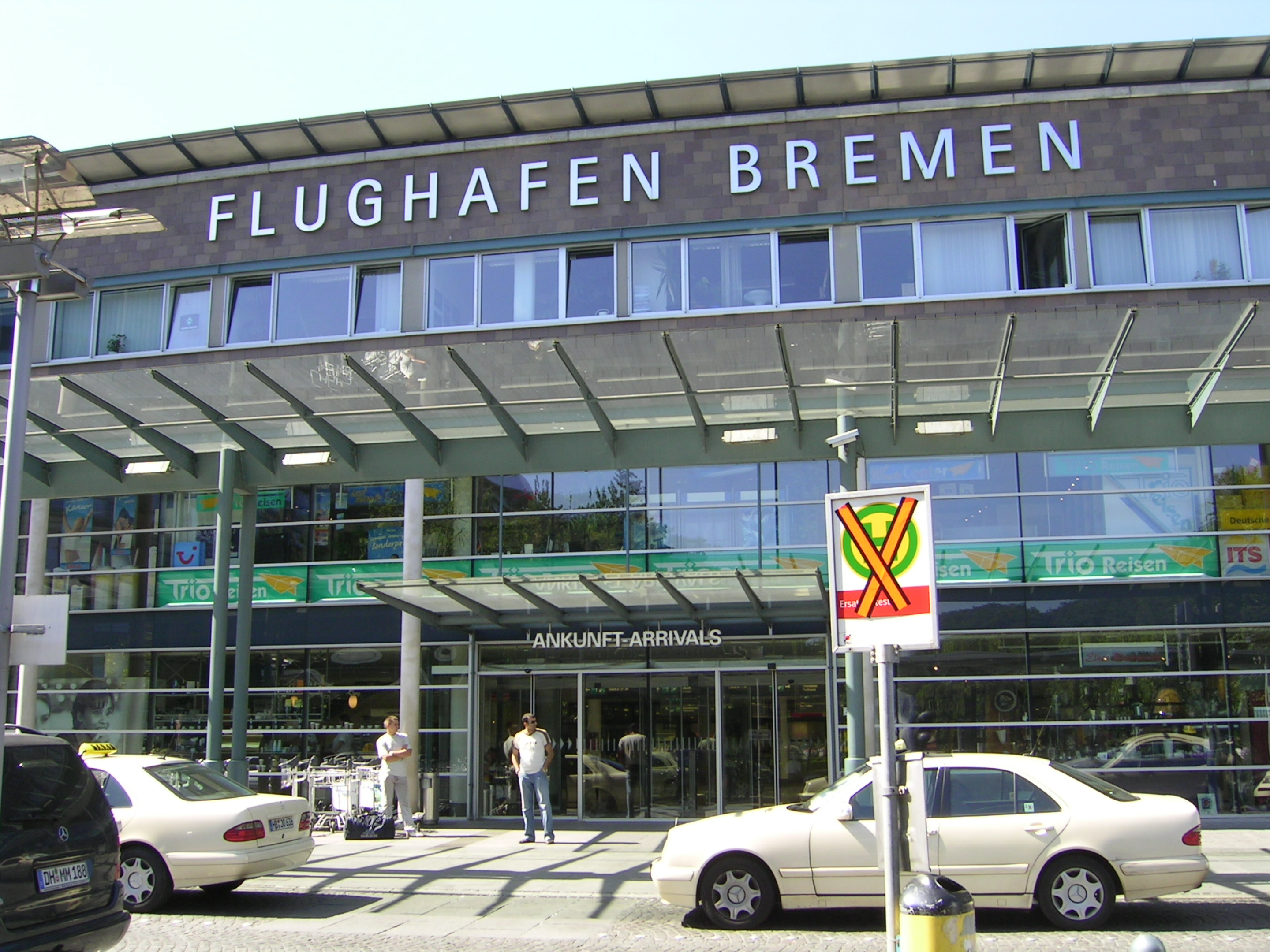 Bremen Airport